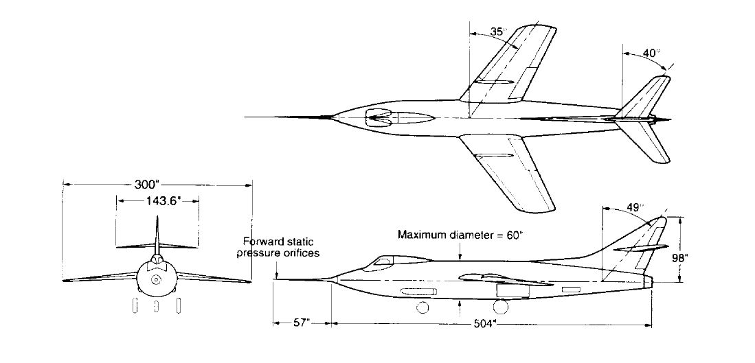 A three-view diagram of the Douglas Skyrocket. US Navy picture picture D-558-2